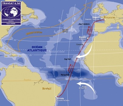 Minitransat